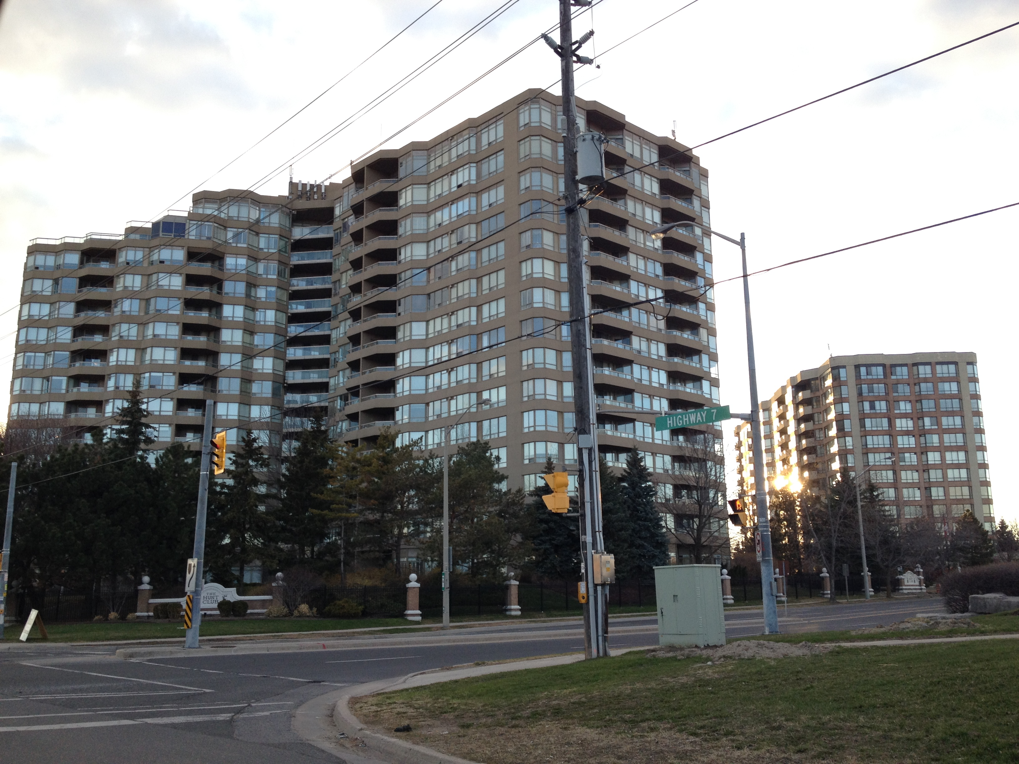 Condominiums build by Tridel at Bullock Drive and Highway 7 in Unionville, Ontario in Markham, Ontario.